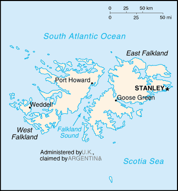 A map of the Falkland Islands (Islas Malvinas), showing island names and major towns.